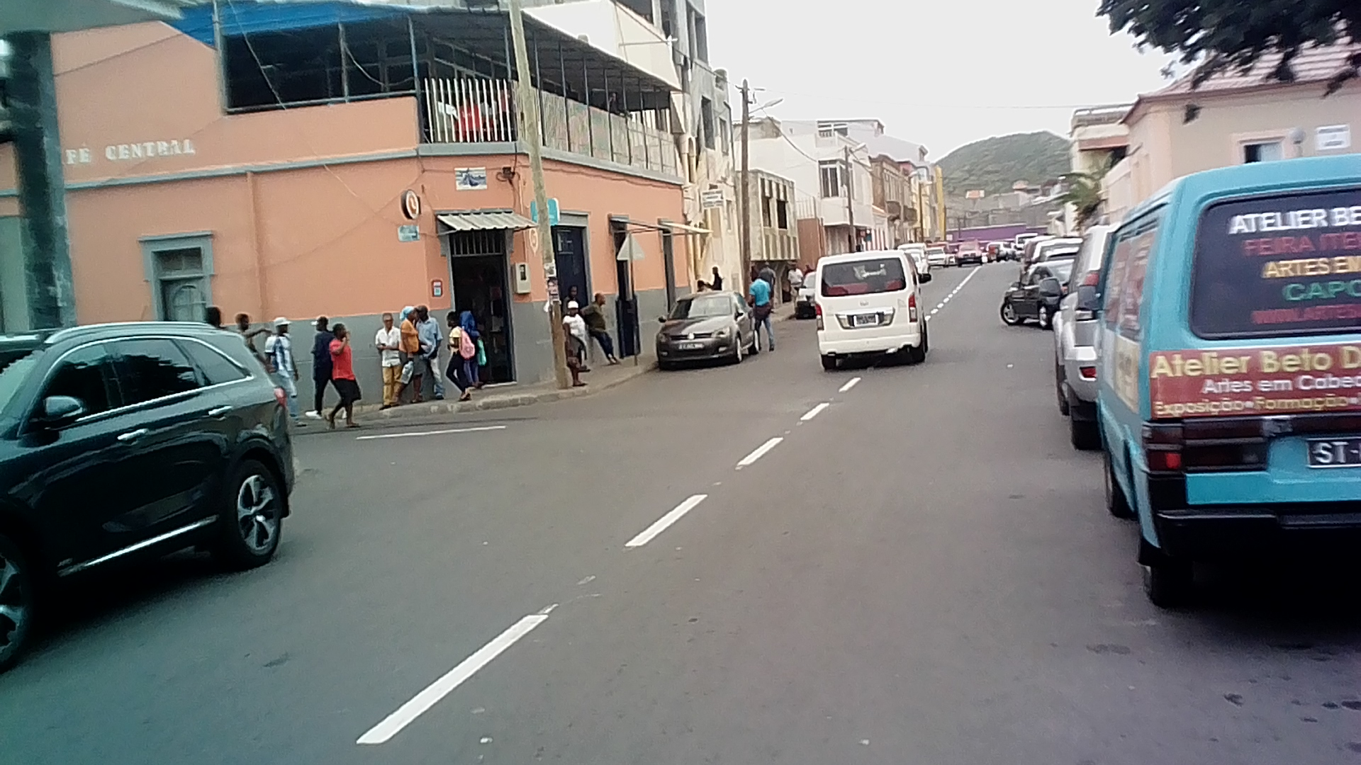 Assomada City Center